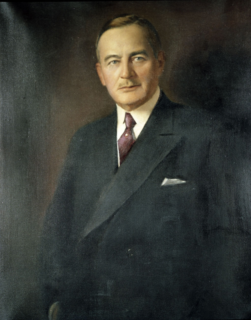 Angus Wilton McLean, 1925 - 1929 From the General Negative Collection, State Archives of North Carolina, Raleigh, NC.